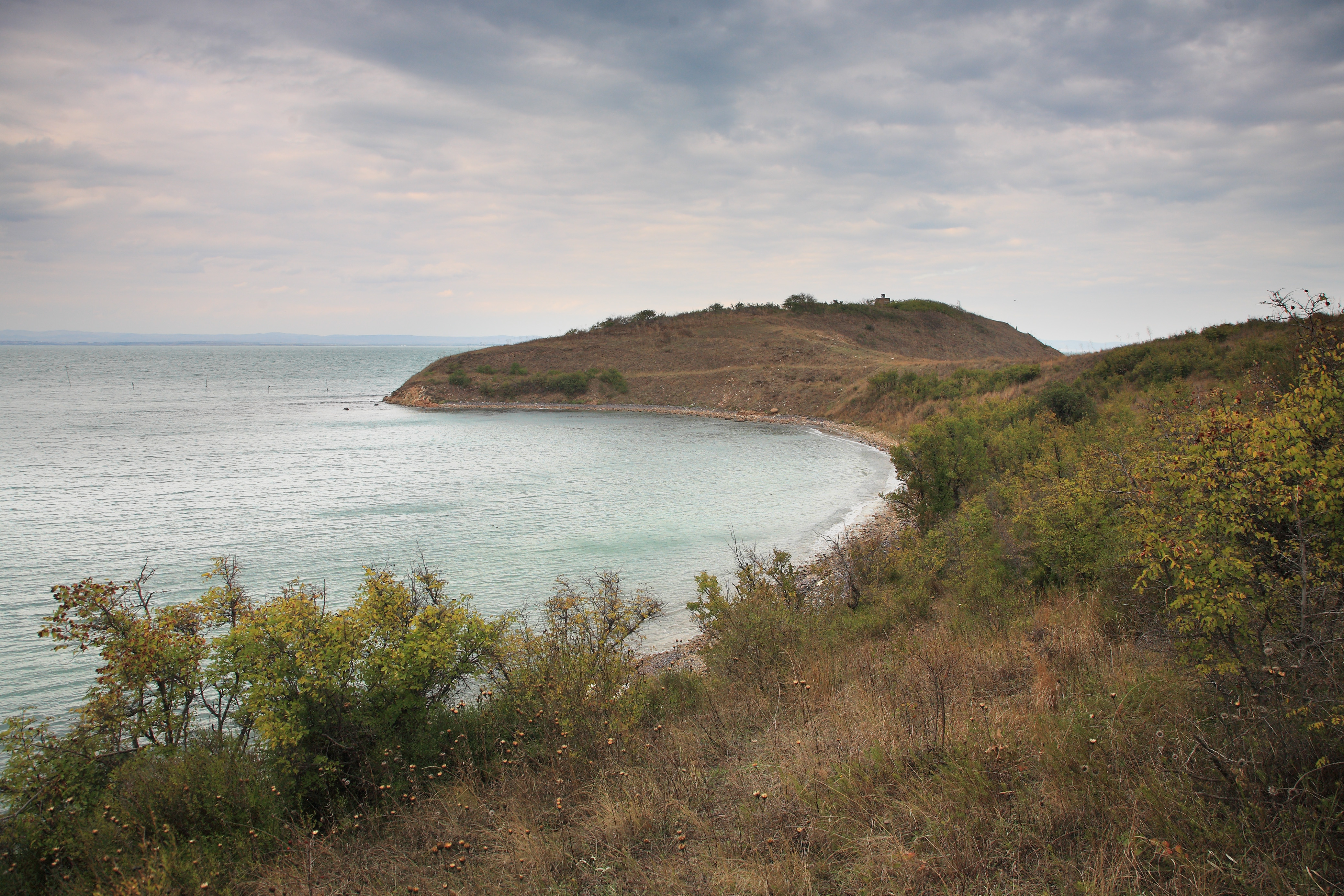 Cape Akin, Bulgaria